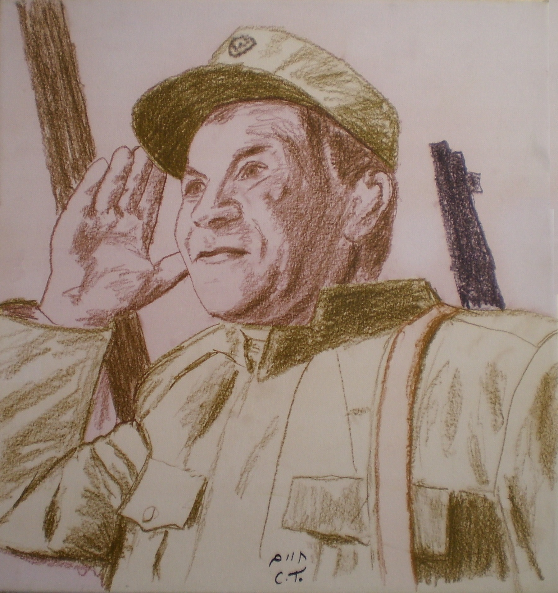 Drawing of Meir Margalit as The Good Soldier Švejk, made by Chaim Topol. Donated To Commons under cc-by-sa license in honor of Jordan River Village